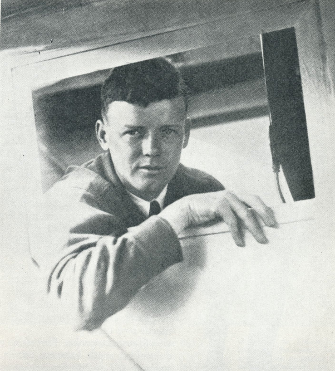 C. Lindbergh in cockpit of Spirit of St. Louis